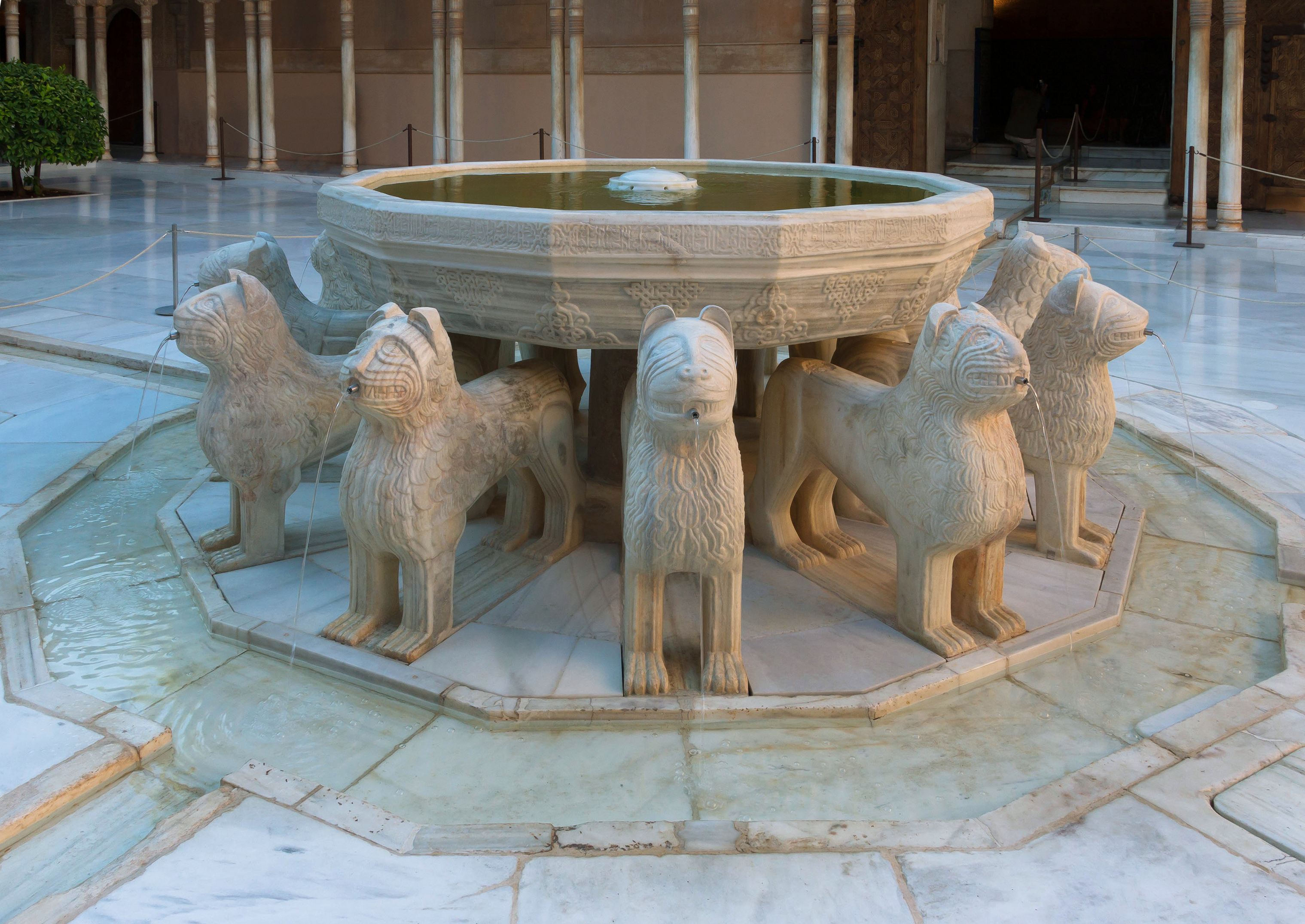 The twelve lions fountain of the Patio de los meones, a few days after the first water delivery, after more than 10 years of restoration. Alhambra, Granada, Spain.